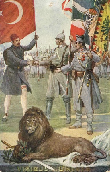 Central Powers propaganda poster in WWI